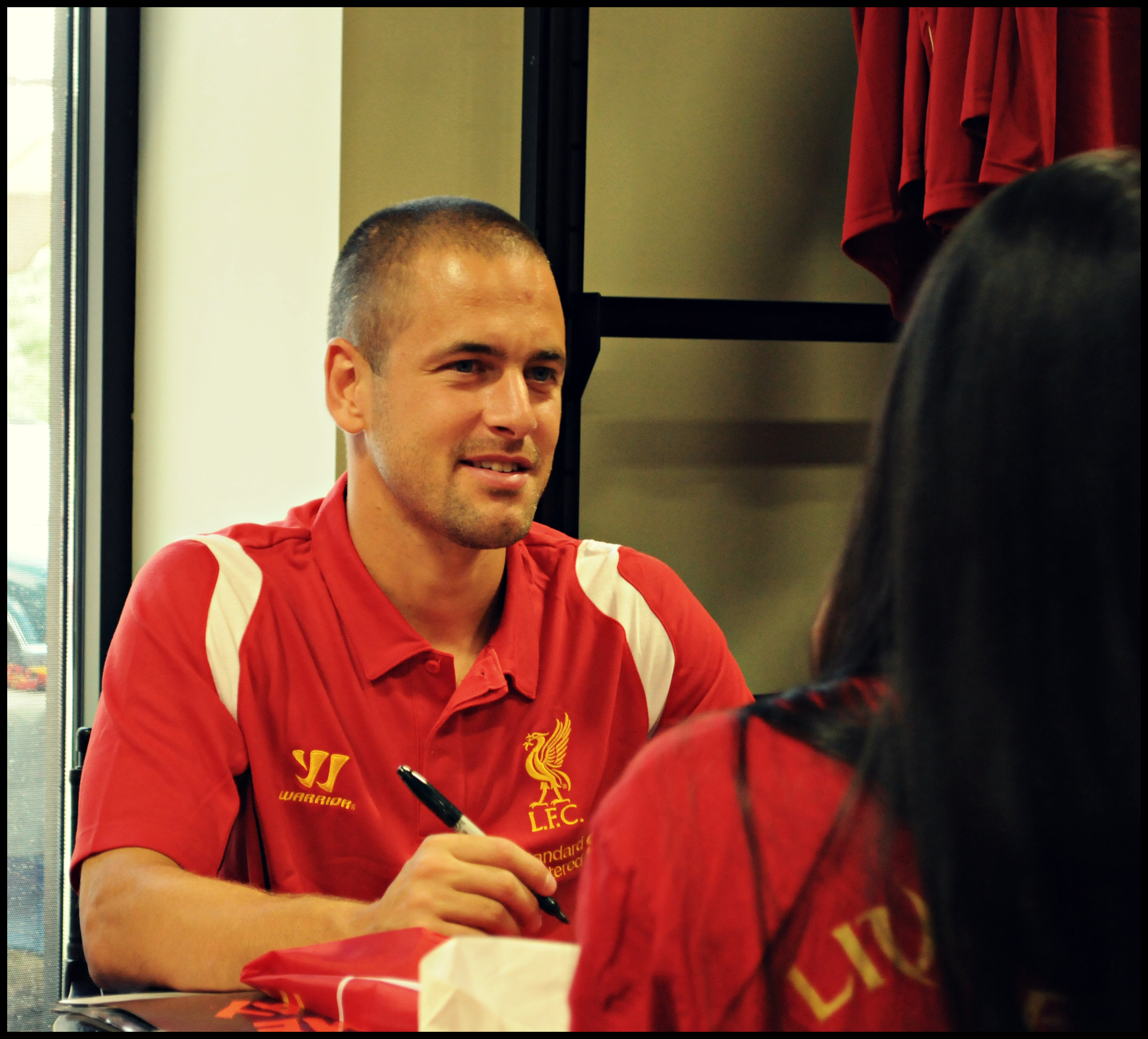 Joe Cole meets the fans in Boston